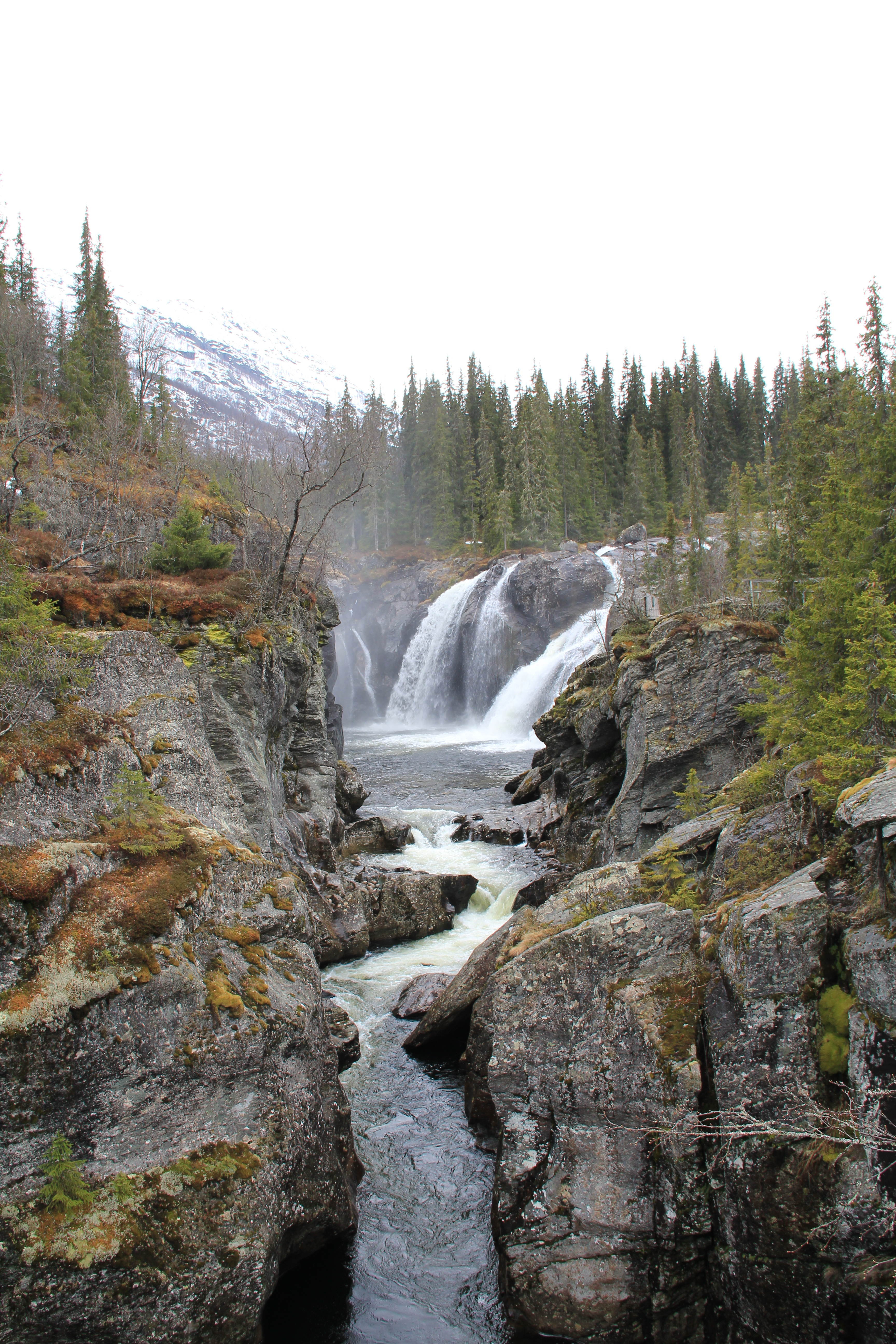 The waterfall Rjukandefoss in Hemsedal, Norway